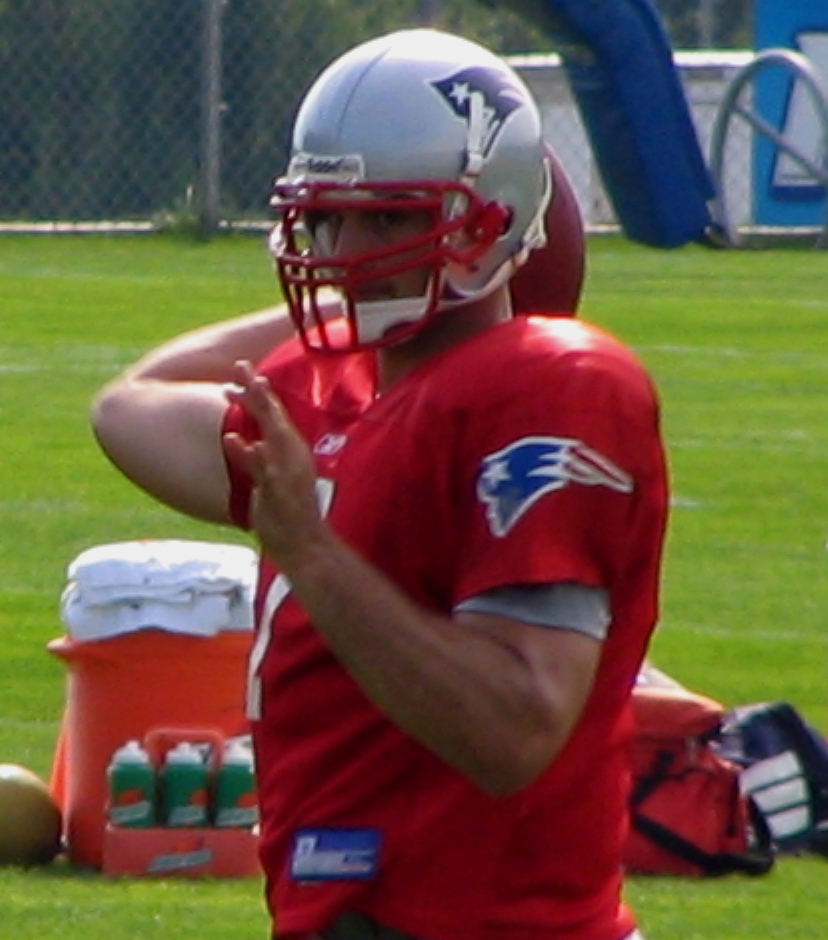 National Football League quarterback Matt Gutierrez